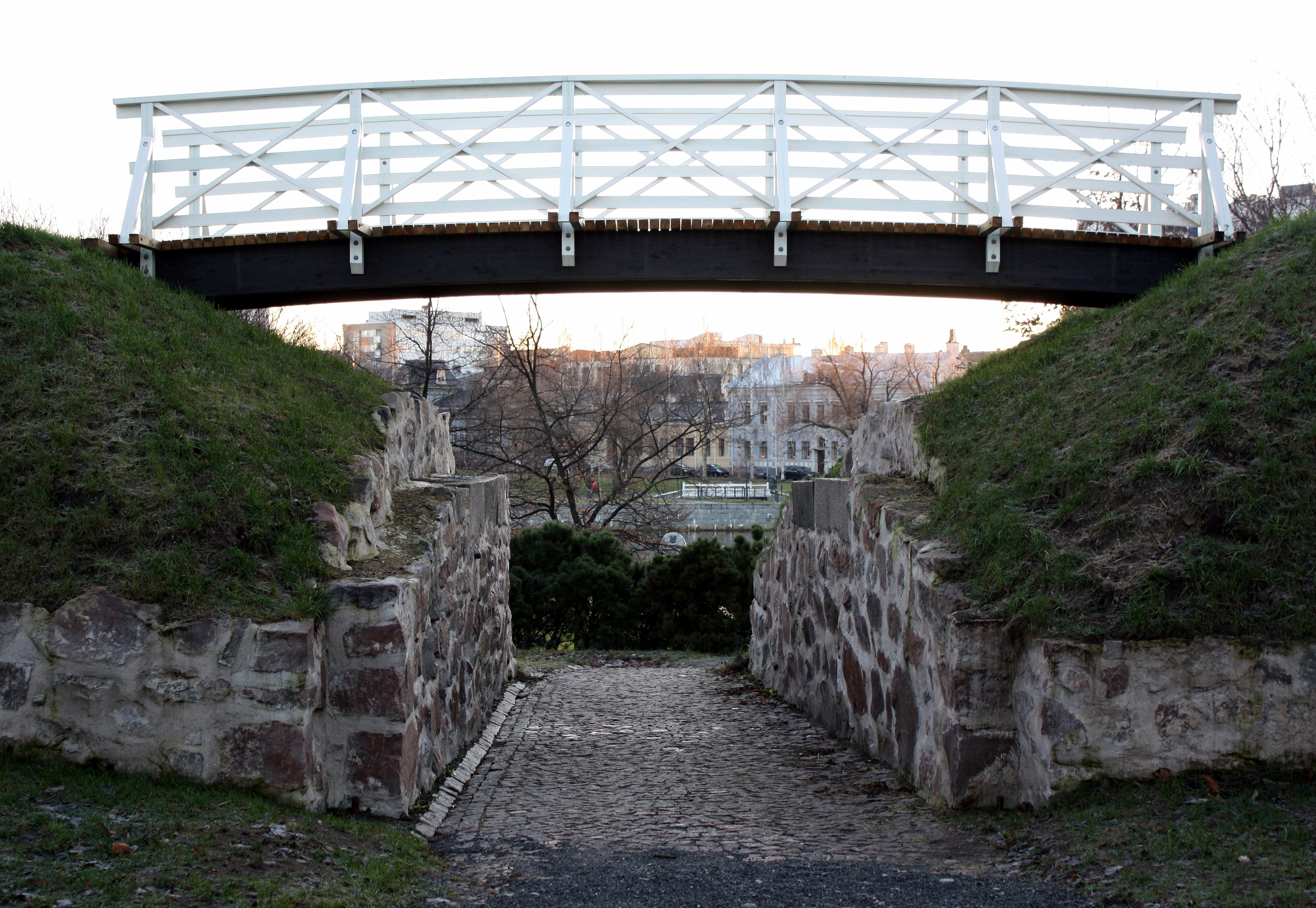 A rampart and port of the ruins of the Oulu Castle.